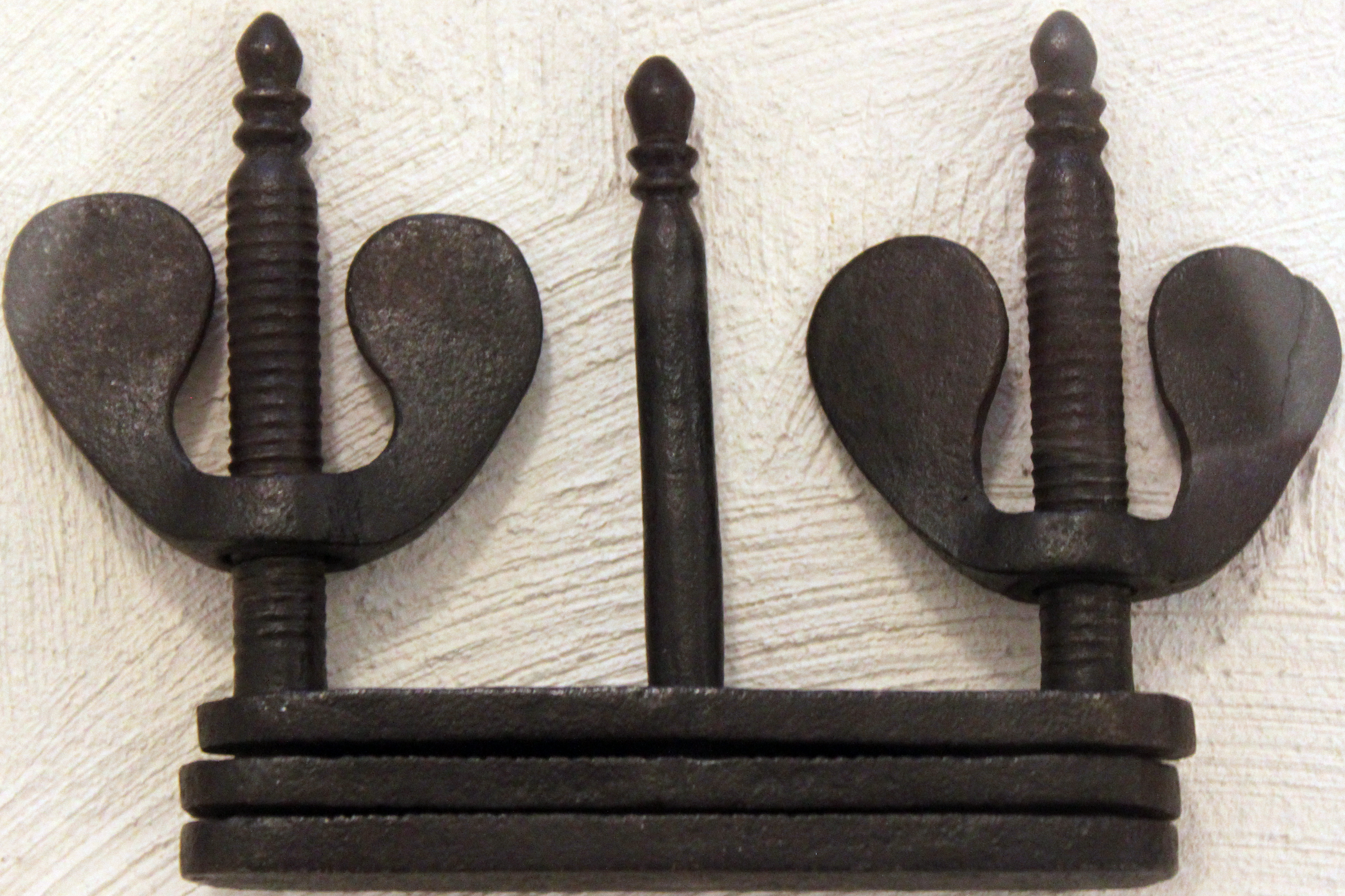 Thumb screw 17, Century; Märkisches Museum, Berlin